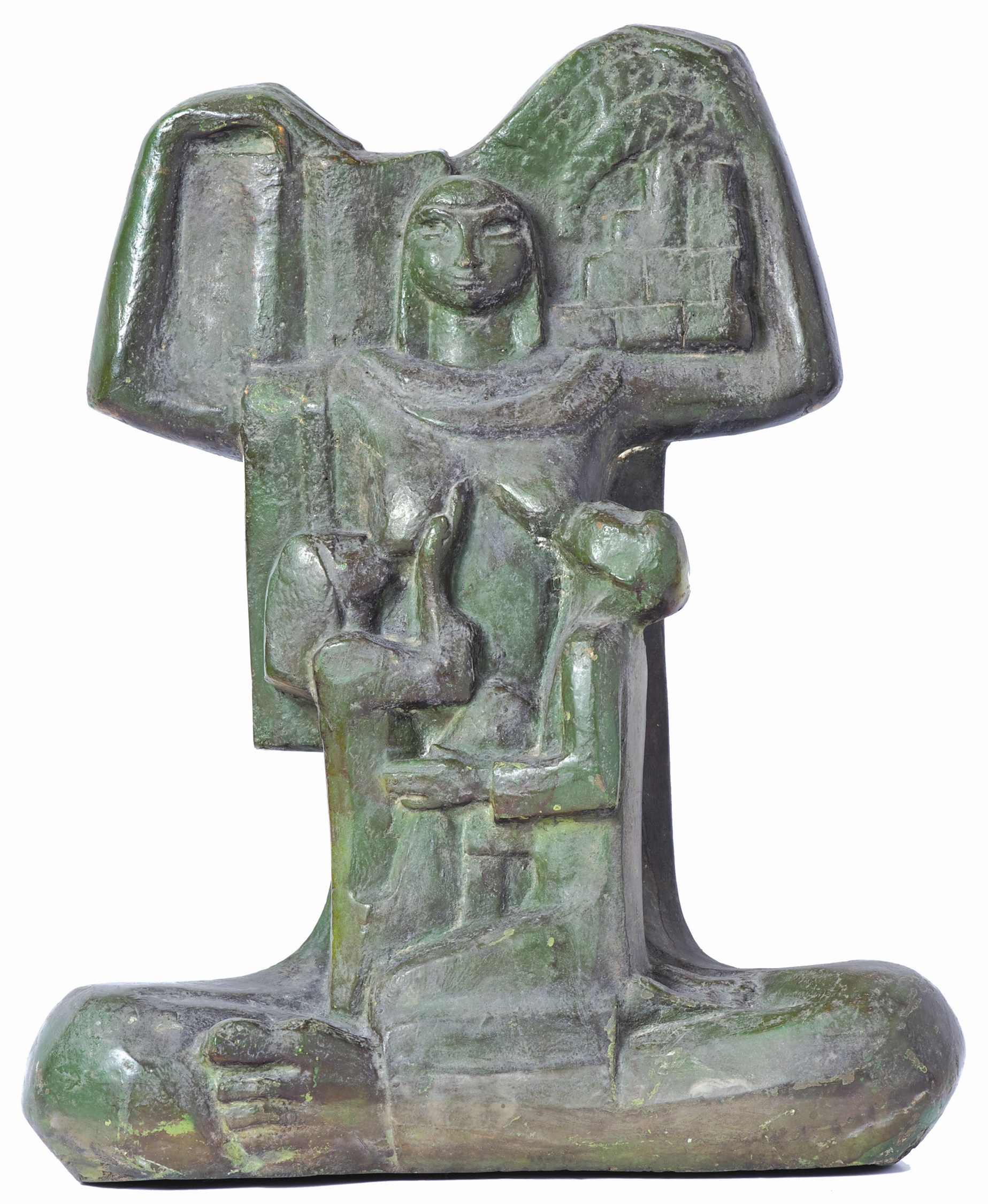 Statue by Egyptian Sculoptor Gamal Sagini called Egypt My Motherhood